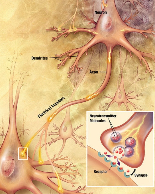 Drawing illustrating the process of synaptic transmission in neurons, cropped from original in an NIA brochure.